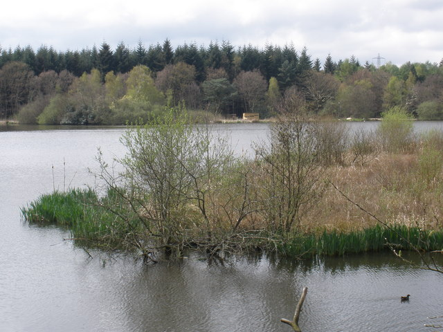 The lake, at Stover Country Park A new bird hide can be glimpsed on the far shore.